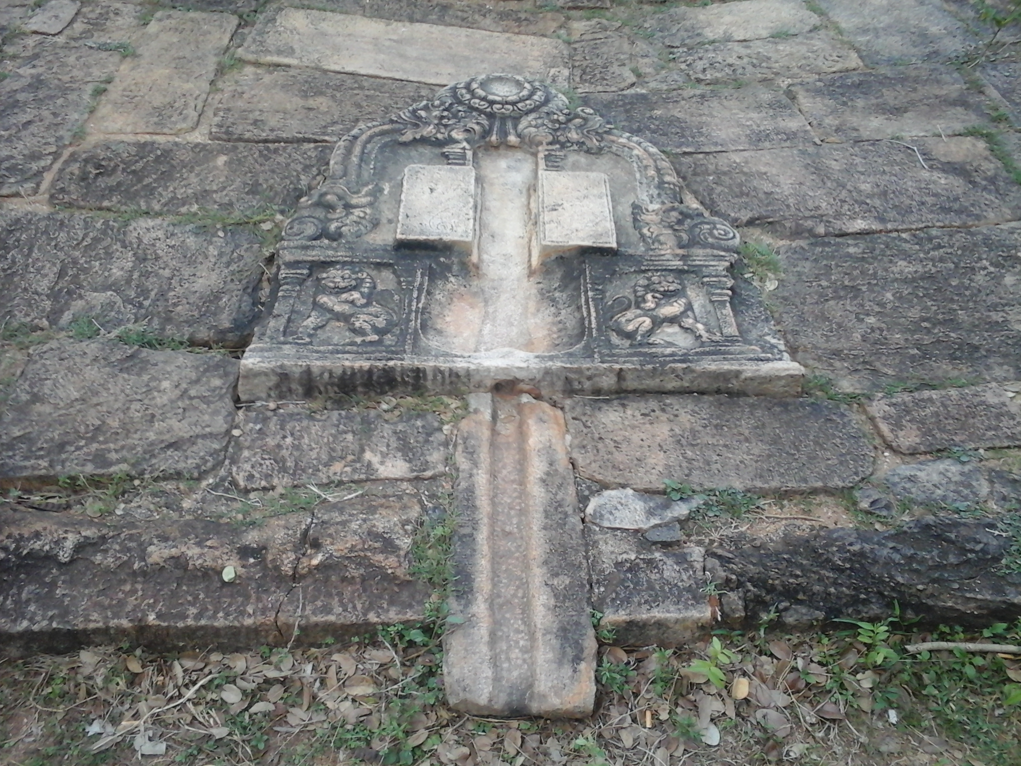 Batahiraramaya ruins - Anuradhapura